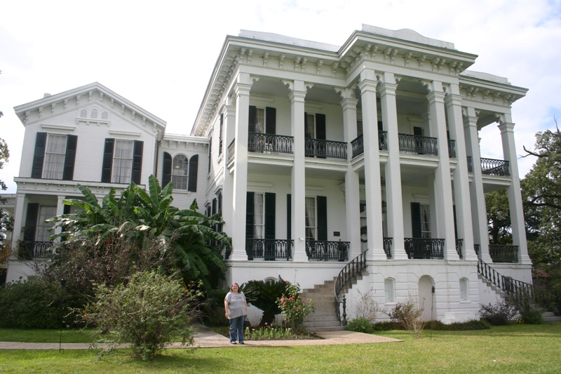 Nottoway Plantation near Baton Rouge, Louisiana.IMG_0032